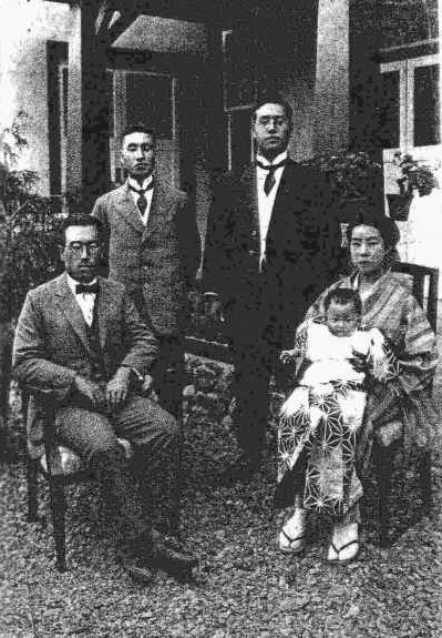 The family of Senkichi Awaya, mayor of Hiroshima